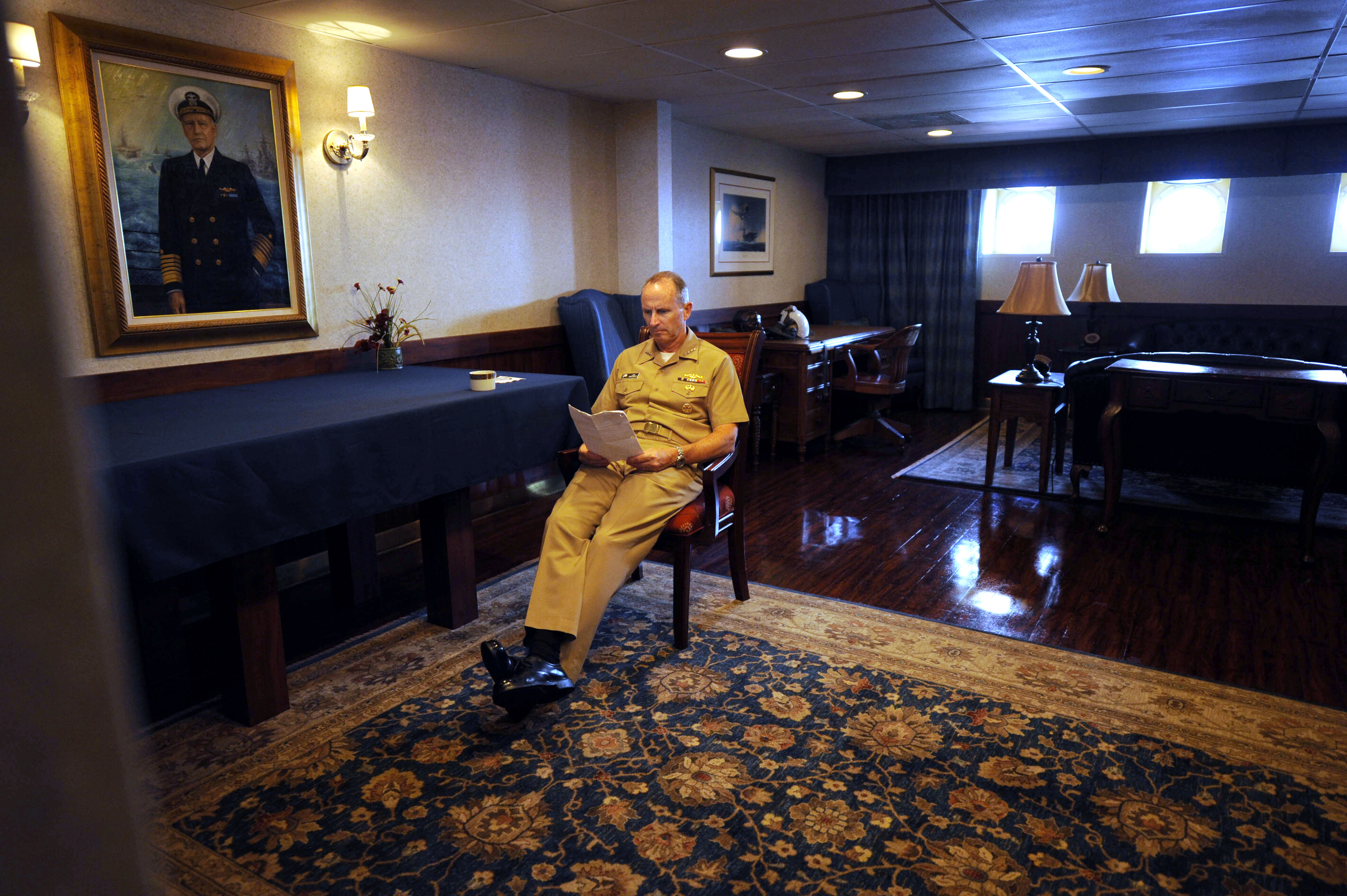 PACIFIC OCEAN (July 18, 2012) Chief of Naval Operations (CNO) Adm. Jonathan Greenert, reviews his speech in the commanding officer’s in-port cabin aboard the aircraft carrier USS Nimitz (CVN 68) while aboard to observe the transfer of biofuel during the Great Green Fleet demonstration portion of the Rim of the Pacific (RIMPAC) 2012 exercise. Nimitz took on 200,000 gallons of biofuel in preparation for the Great Green Fleet demonstration during Rim of the Pacific (RIMPAC) 2012. Twenty-two nations, more than 40 ships and submarines, more than 200 aircraft and 25,000 personnel are participating in RIMPAC exercise from June 29 to Aug. 3, in and around the Hawaiian Islands. The world's largest international maritime exercise, RIMPAC provides a unique training opportunity that helps participants foster and sustain the cooperative relationships that are critical to ensuring the safety of sea lanes and security on the world's oceans. RIMPAC 2012 is the 23rd exercise in the series that began in 1971. (U.S. Navy photo by Mass Communication Specialist 2nd Class Robert Winn/Released) 120718-N-HN953-423 Join the conversation navylive.dodlive.mil